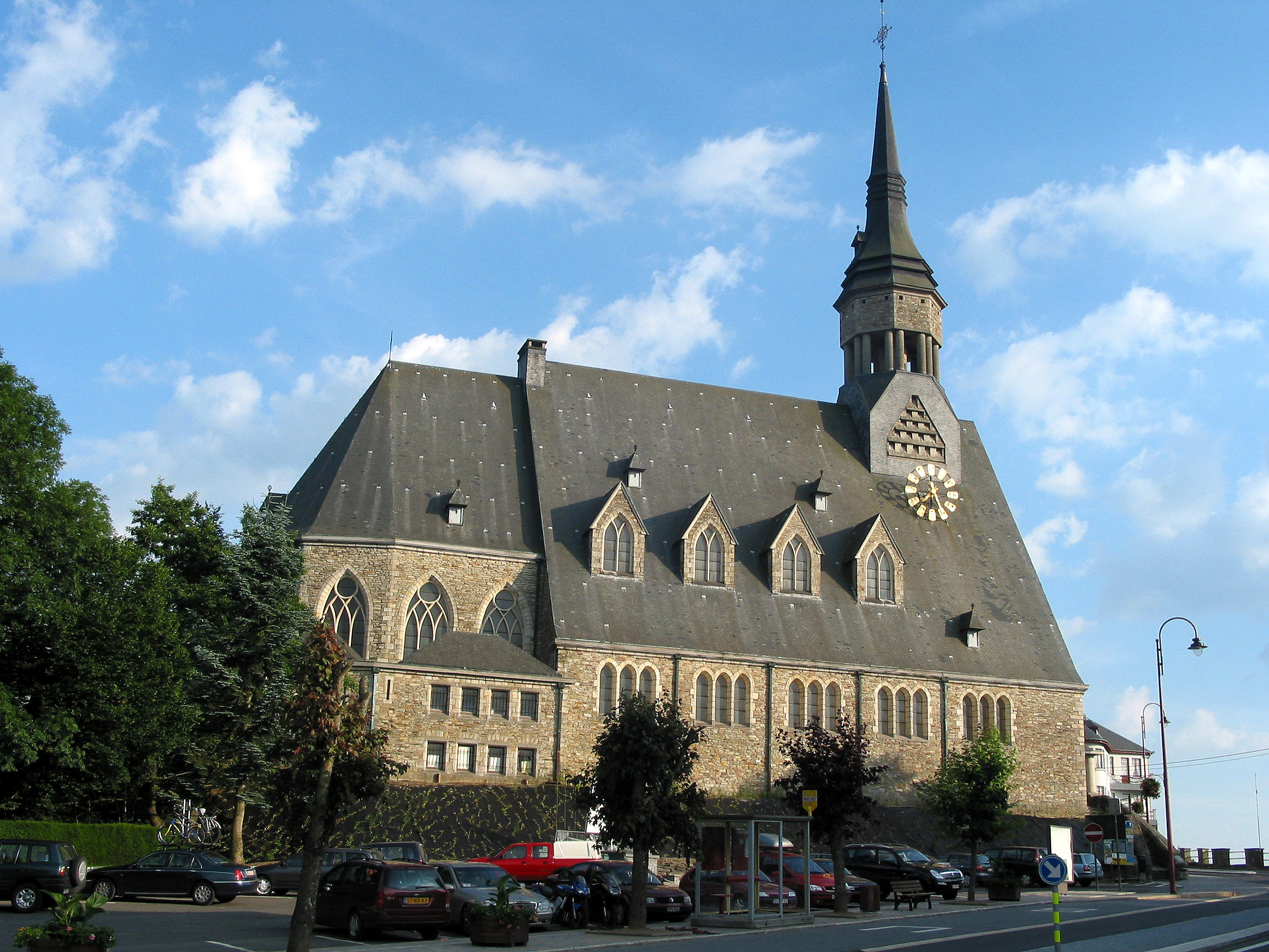 Vielsalm (Belgium), the St. Gengoul church (1953-1957).